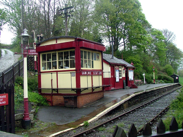 Damems station Damems station which is on the Keighley & Worth Valley Railway has a ticket-cum-station masters office, waiting room, toilet, and signal box. This is the smallest station in Britain, and can accommodate one train carriage